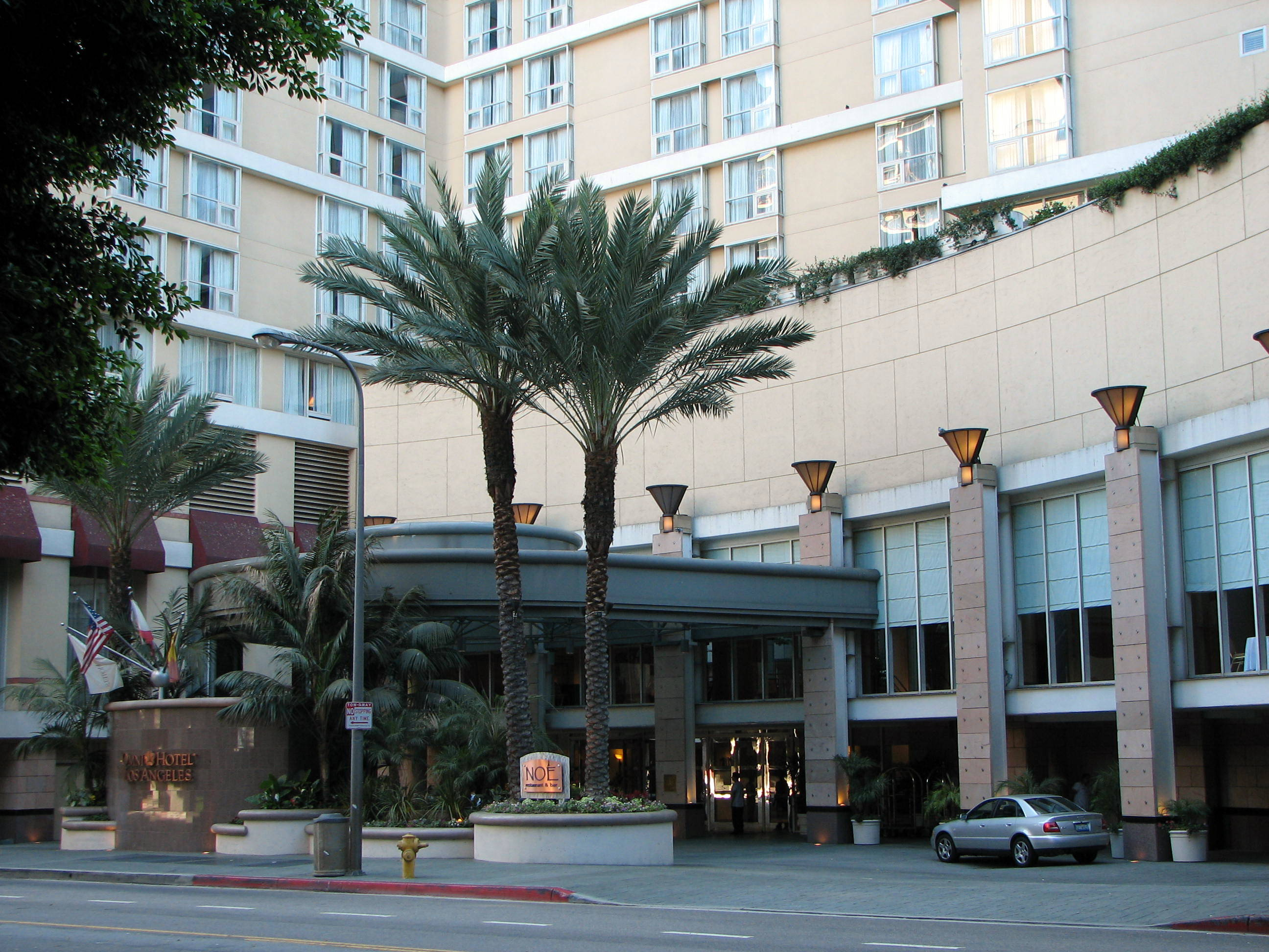 Omni Hotel, Los Angeles, California, USA